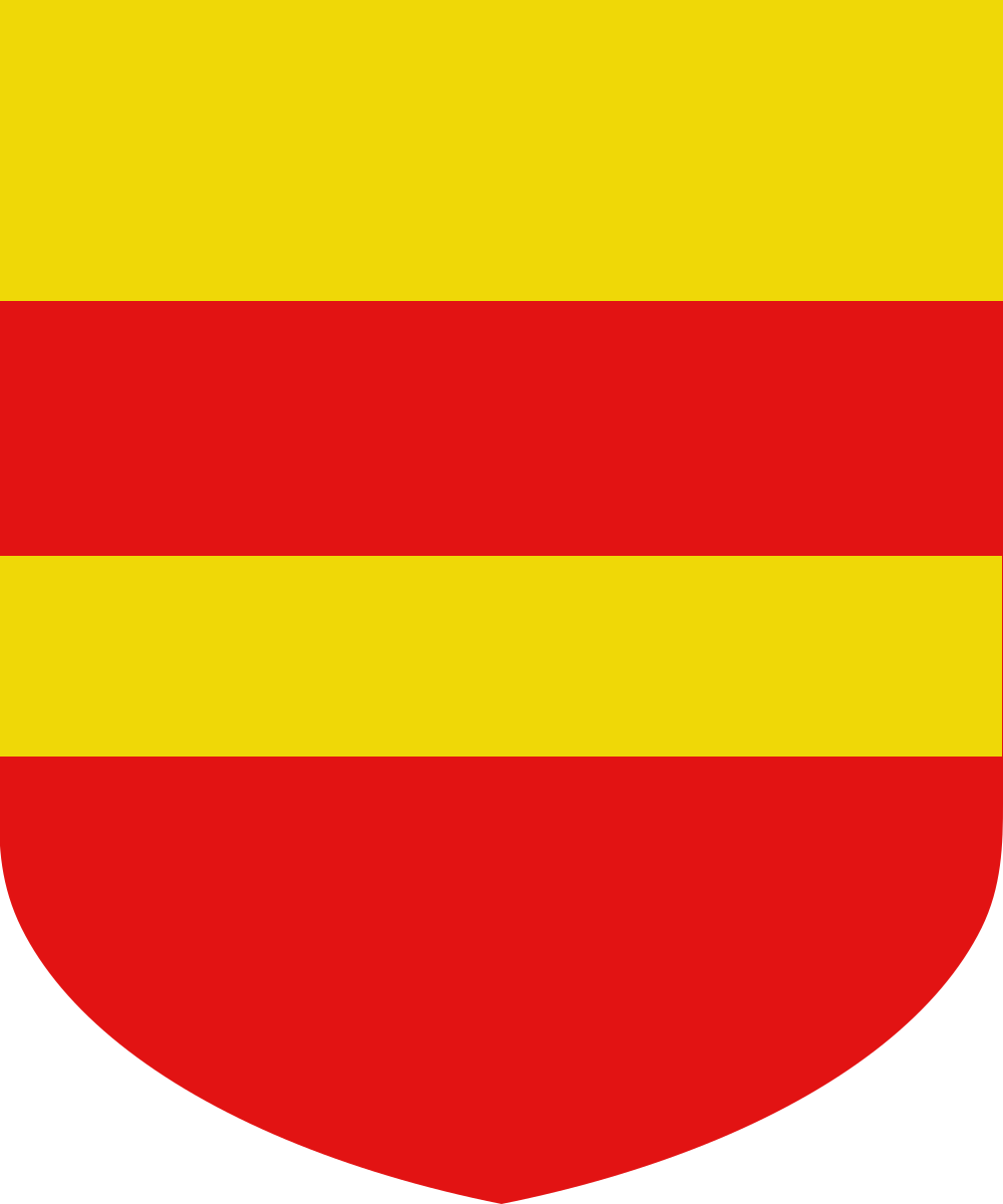 Agadi family shield